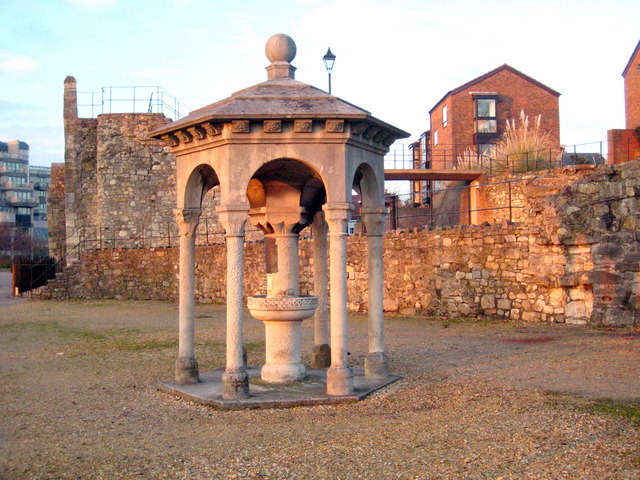 The Mary Ann Rogers memorial fountain Mary Ann Rogers was a stewardess on the 'Stella', sailing from Southampton to Guernsey when it sank on the night of 30 March 1899. She gave up her lifejacket and her place in a lifeboat so that passengers could be saved.